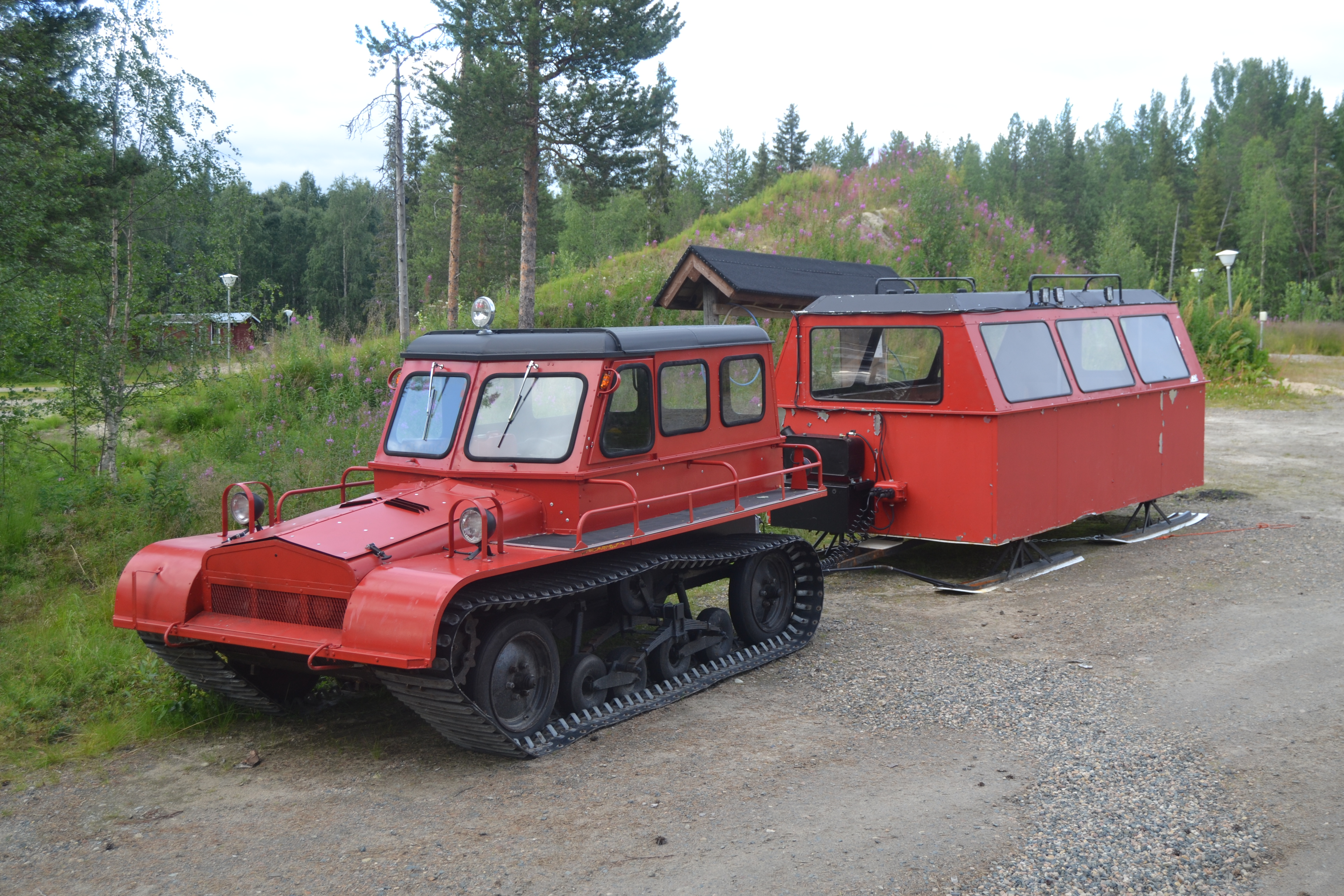 Westeråsmaskiner tracked vehicle, Snow-Trac, with a sleigh in Muonio, Finland